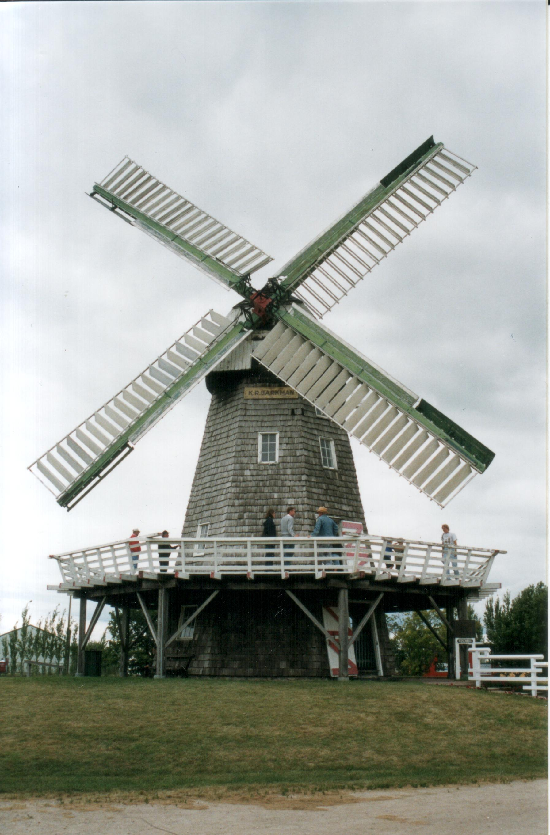 The replica windmill at the Mennonite Heritage Village in Steinbach, Manitoba built in 1972 and subsequently destroyed by fire in 2000.